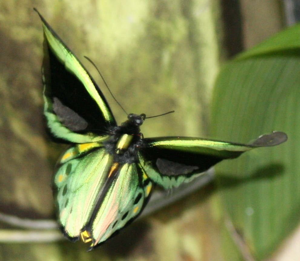 A male Cairns Birdwing butterfly. Kuranda Butterfly Farm, Kuranda, Australia.